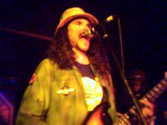 Brant Bjork, taken by *smb (Simon Boyce) on July 19th 2006 at a concert in Exeter